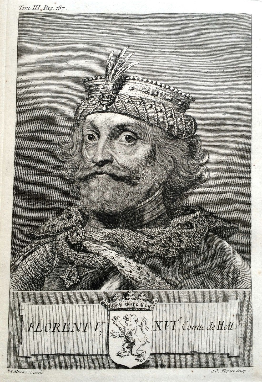 Floris V, Count of Holland. From: Histoire de France depuis l'établissement de la monarchie françoise dans les Gaules (1720)